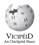 Wikipedia logo 2.0